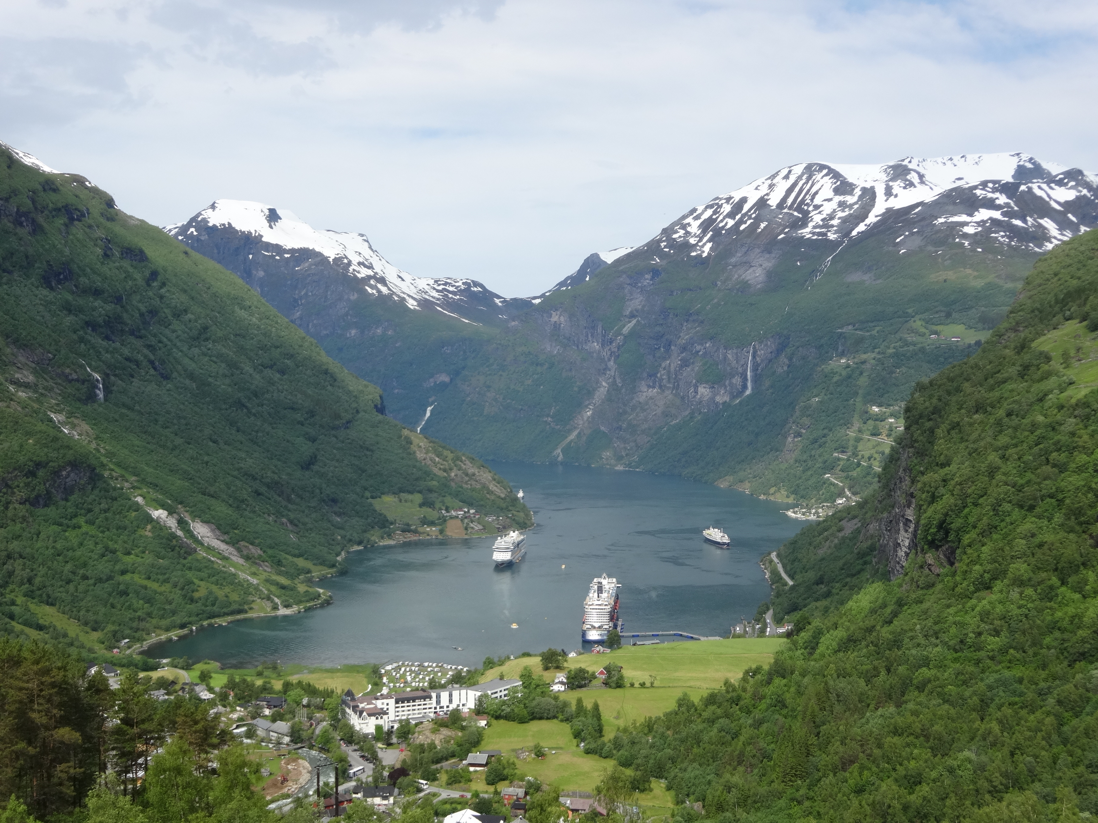 View from Dalsnibba